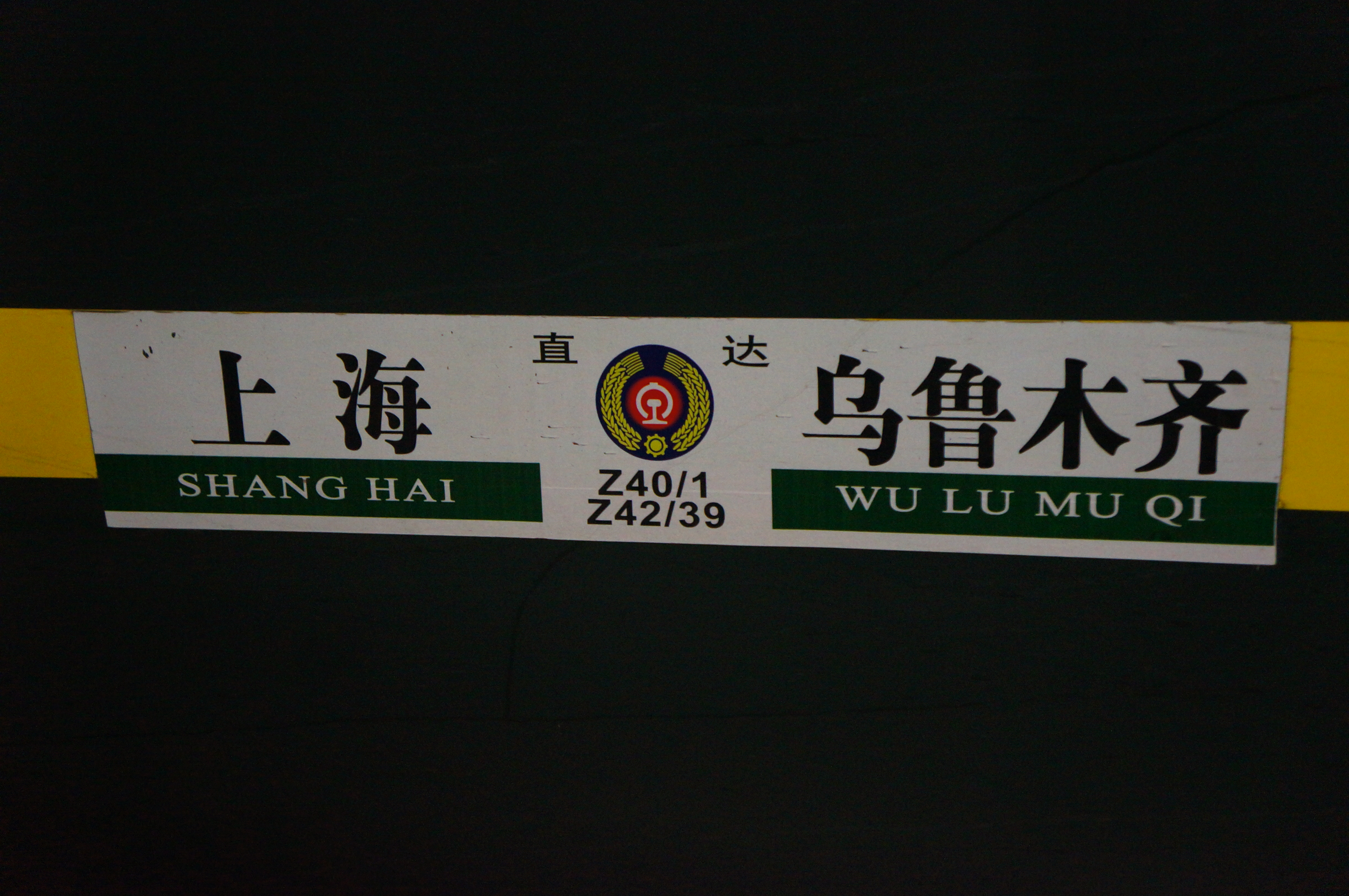 Z39 40 41 42 infoboard from Shanghai to Urumqi in 201812.